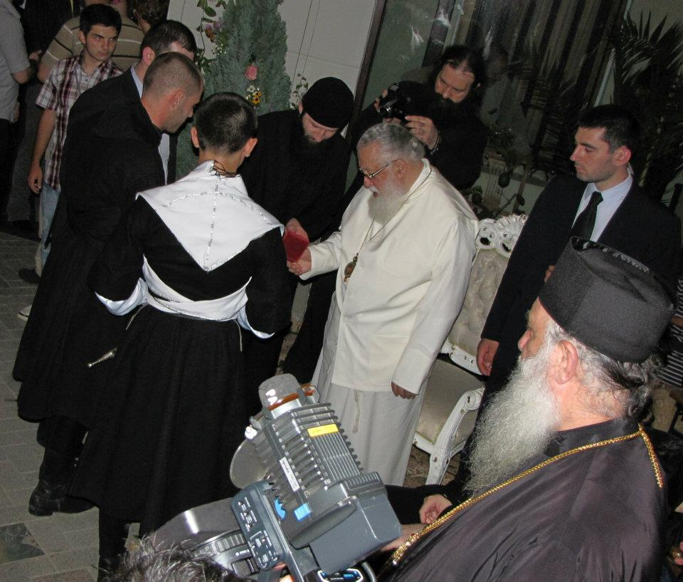 Cotne dadianis darbazi